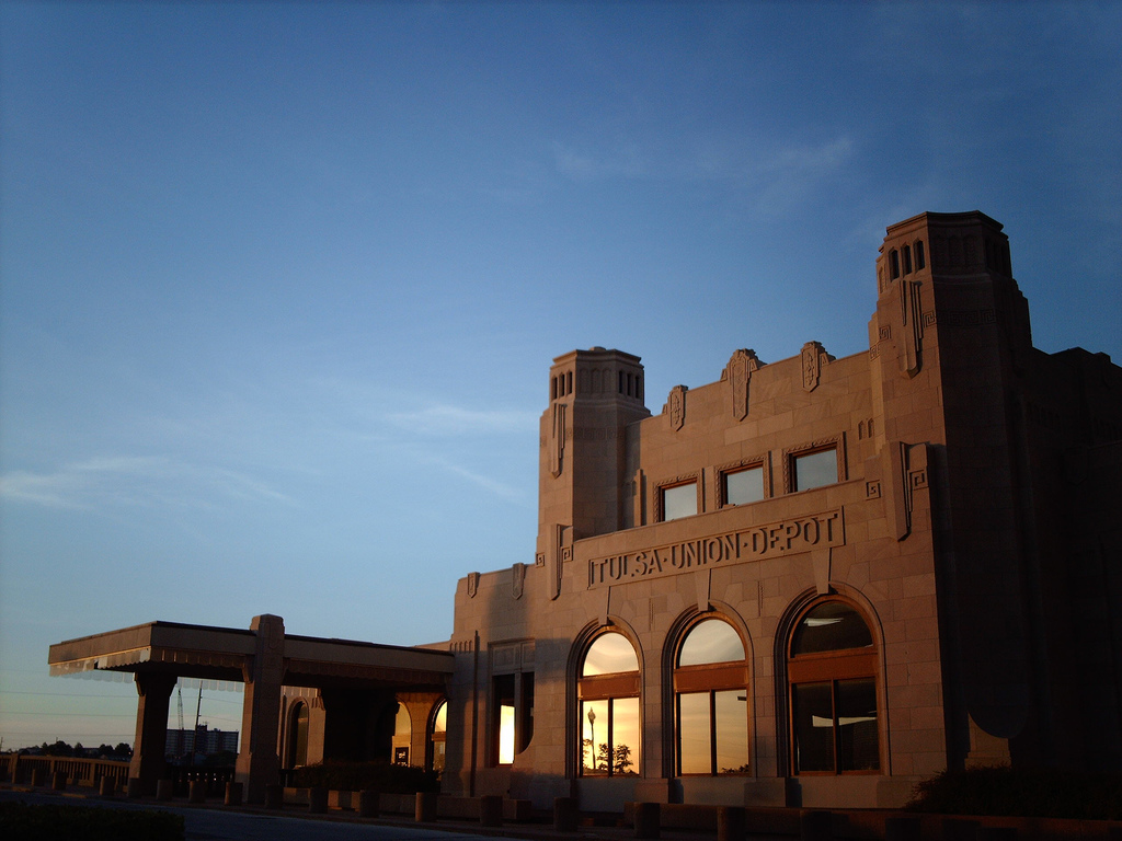 The Tulsa Union Depot at sunset — Tulsa, Oklahoma.